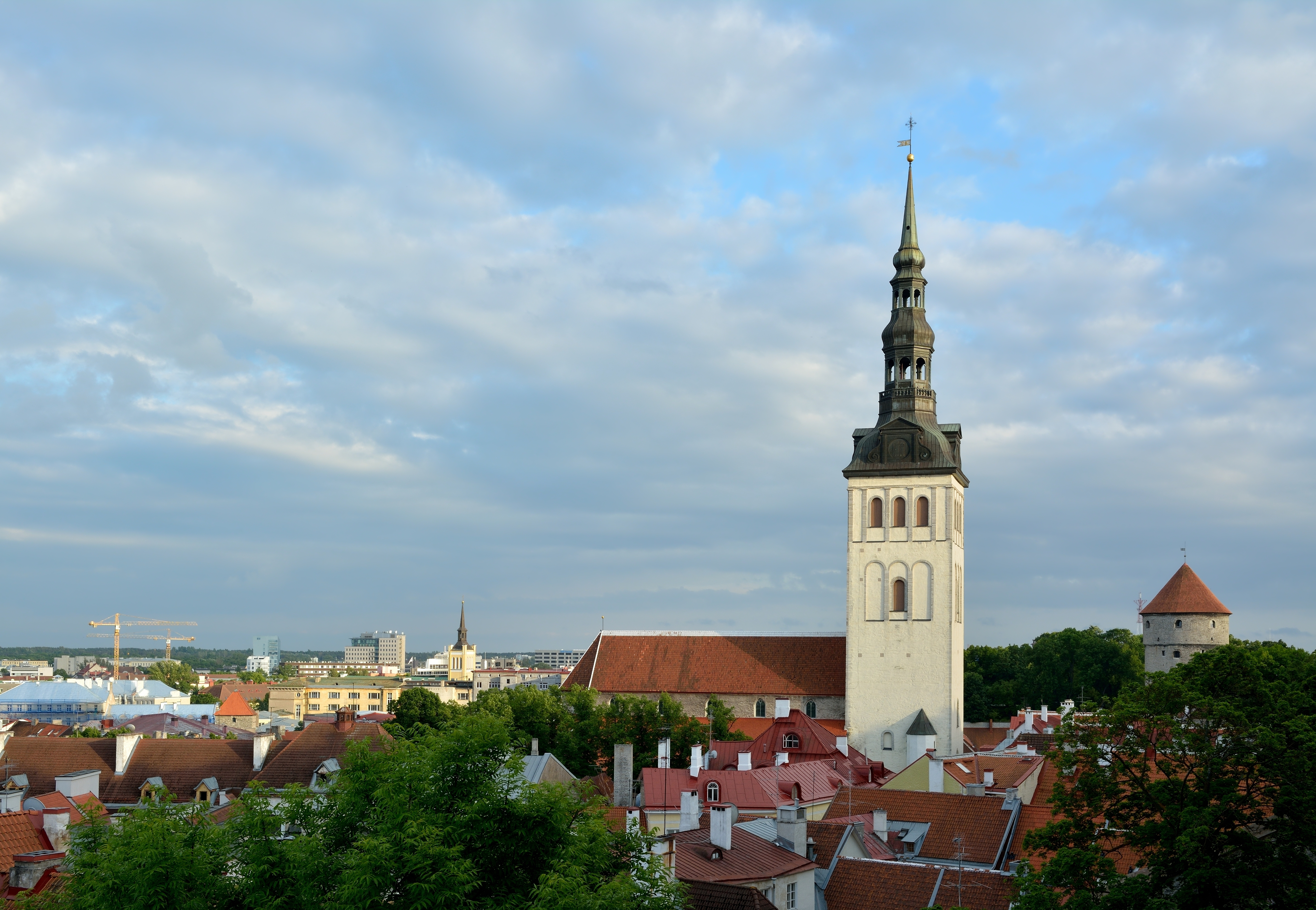 St. Nicholas' Church, Tallinn. Photo was taken from Kohtuotsa viewing platform. First part of the church was built in 1230.